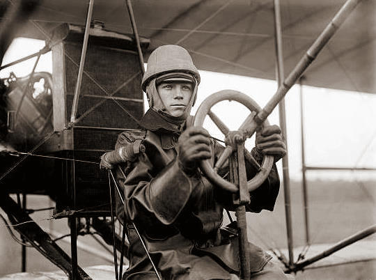 Curtiss military airplane being tested for the United States Army in College Park, Maryland by Lt. Thomas DeWitt Milling. Milling had mastered the controls of both the Wright and Curtiss pushers.